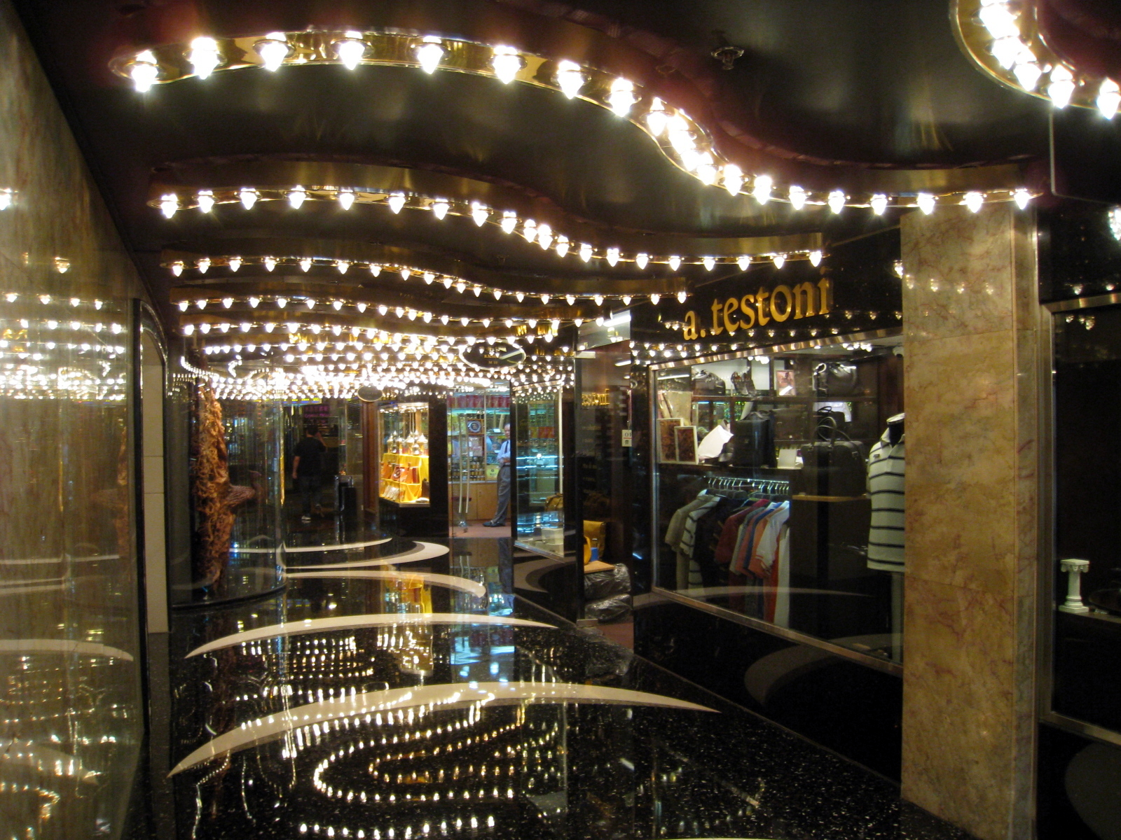 Hotel Lisboa Shopping Arcade 葡京酒店